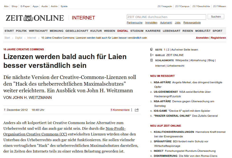 A screenshot of the webpage of Zeit Online a online news page of a german newspaper. Apearing on it an articel "Lizenzen werden bald auch für Laien besser verständlich sein" of the John H. Weizmann one of two heads of Creative Commons Deutschland.